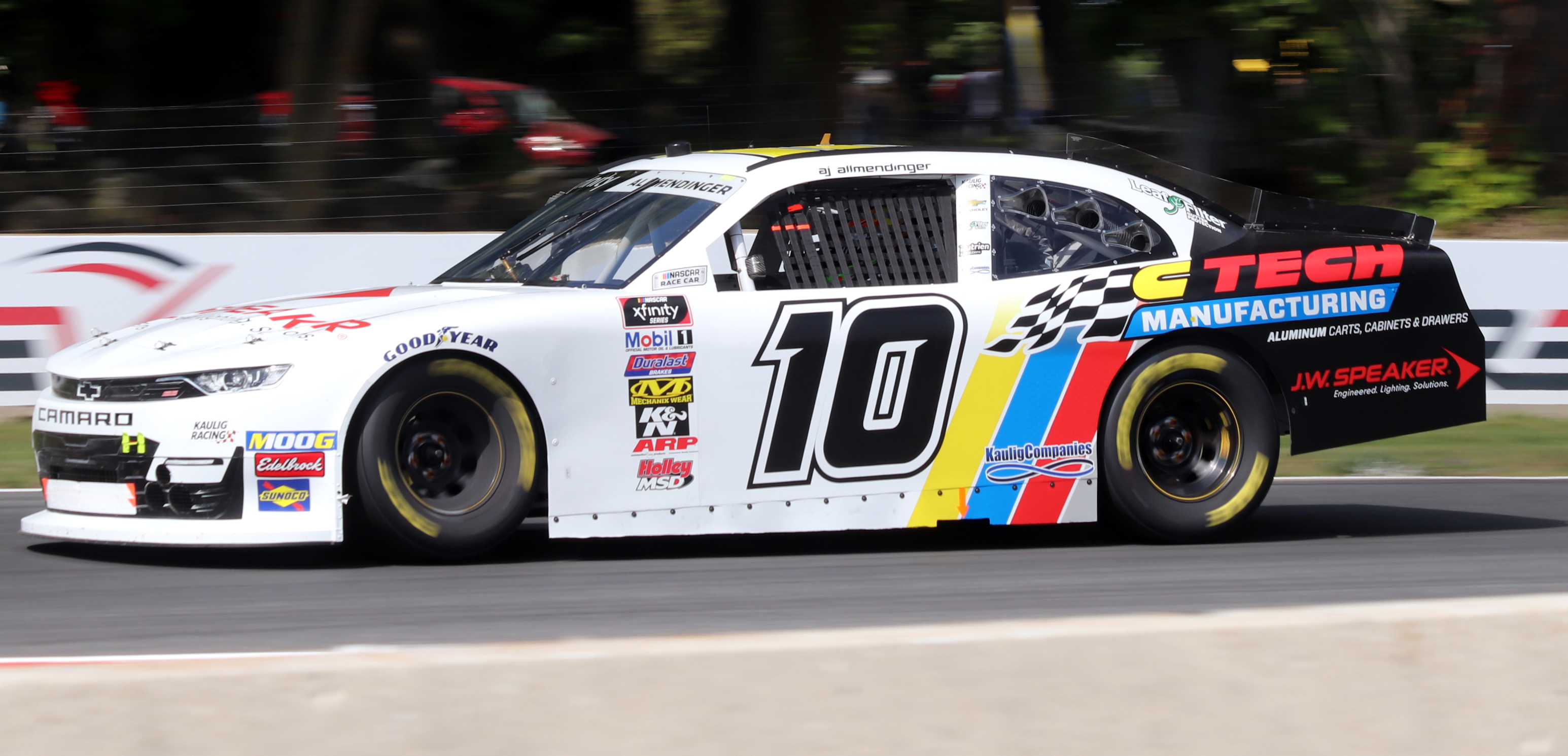 The #10 Chevrolet Camaro of A.J. Allmendinger at the NASCAR CTECH 180.